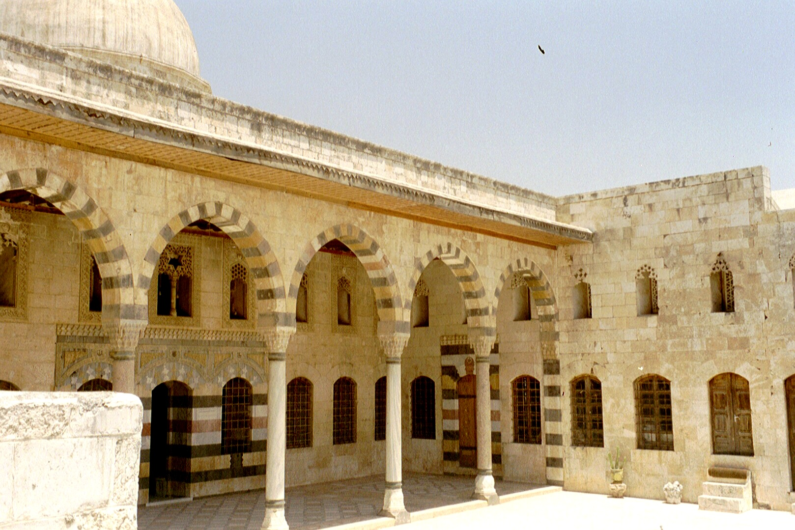 Courtyard and facade of the Al Azam Palace, in Hama, Syria. Credits Picture taken by me in June, 2001, with an automatic Olympus mju:zoom140 camera.